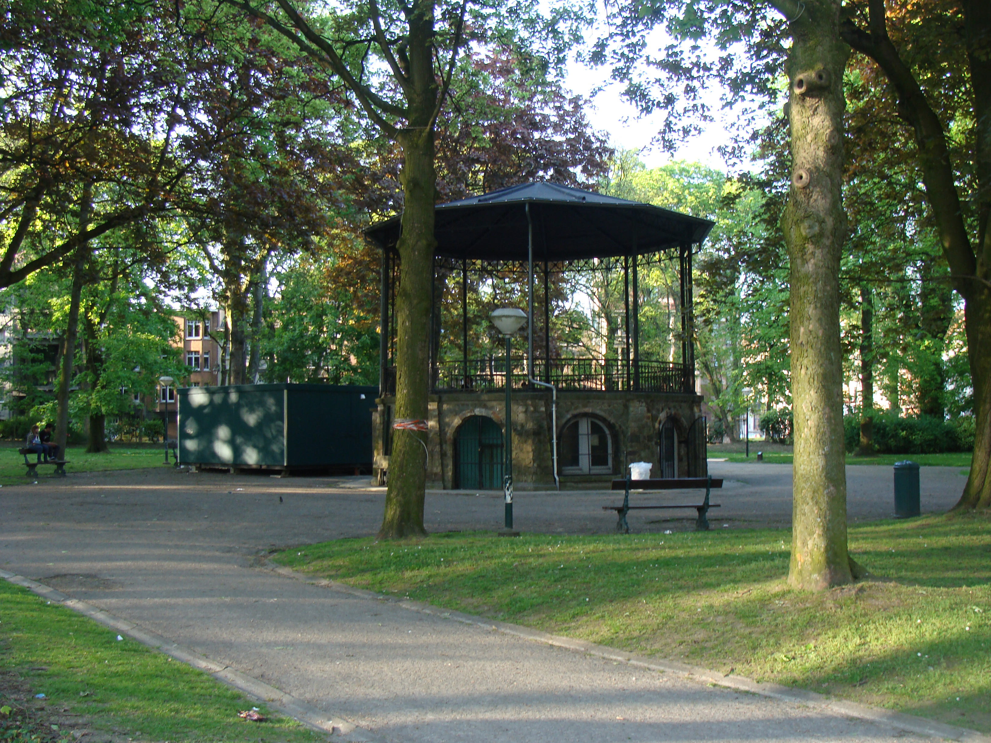 Brussels Elisabeth Park Kiosk. Elizabeth Park is located between Simonis metro station and National Basilica of the Sacred Heart